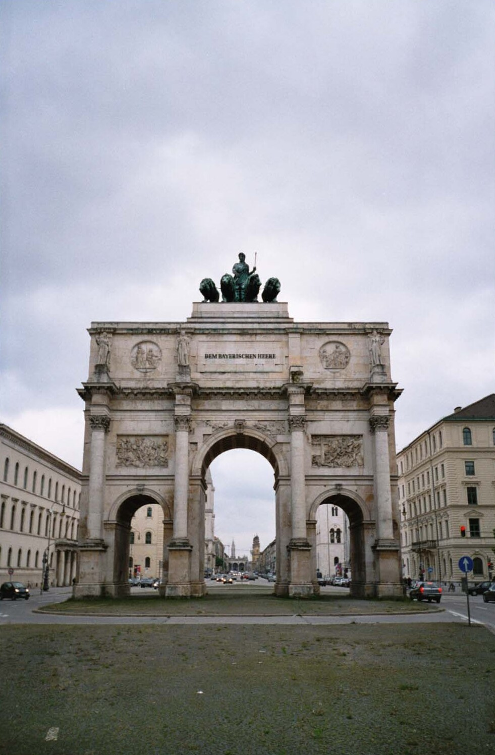 Triumphal Arch, Munich, Bavaria. Destroyed in the Second World War, reerrected.